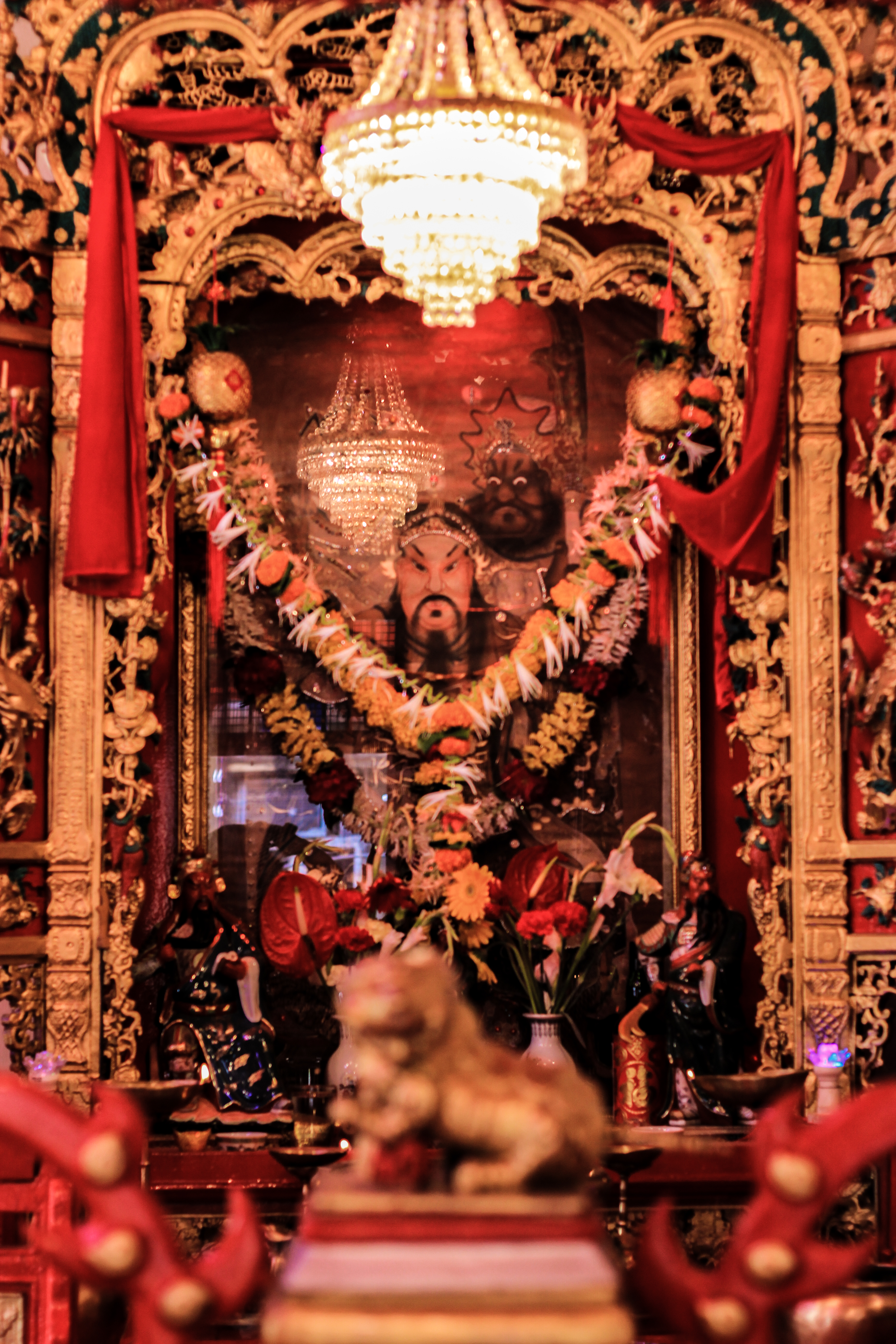 The photo of Kwan Tai Kwon which is worshiped in the Chinese temple.